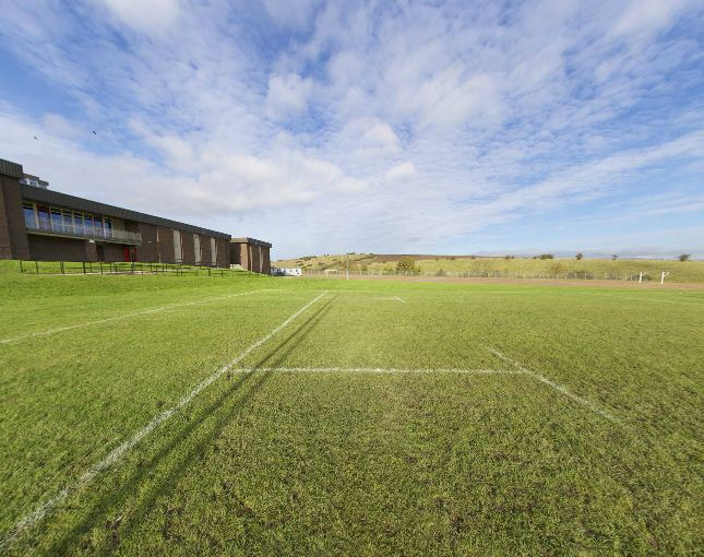 Boclair Pitches